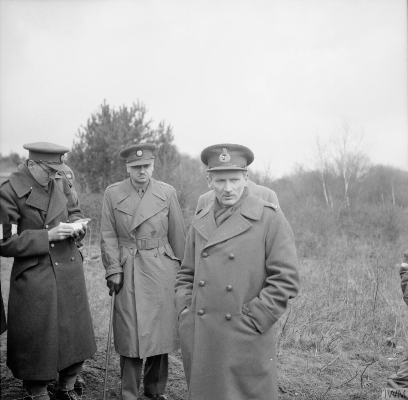 The British Army in the United Kingdom 1939-45 General Bernard Montgomery, General Officer Commanding 5th Corps, with war correspondents during a large-scale exercise in Southern Command, March 1941.